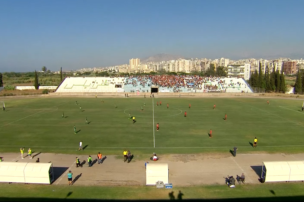 The Tripoli Municipal Stadium during the 2019 Lebanese Elite Cup match between Ansar and Nejmeh